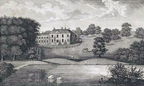 View of Freeford. An antique line engraving by Ravenhill after a drawing by Rev. S. Shaw. Published in "The History and Antiquities of Staffordshire" by the Rev. Stebbing Shaw in 1798-1802 with later hand colouring. Inscribed "To the Most Noble the Marquis of Donegal This View of Fisherwick is inscribed by his obliged humble servant S. Shaw" South view showing a two storeyed Georgian brick house seen across a lake. There is parkland on the right.